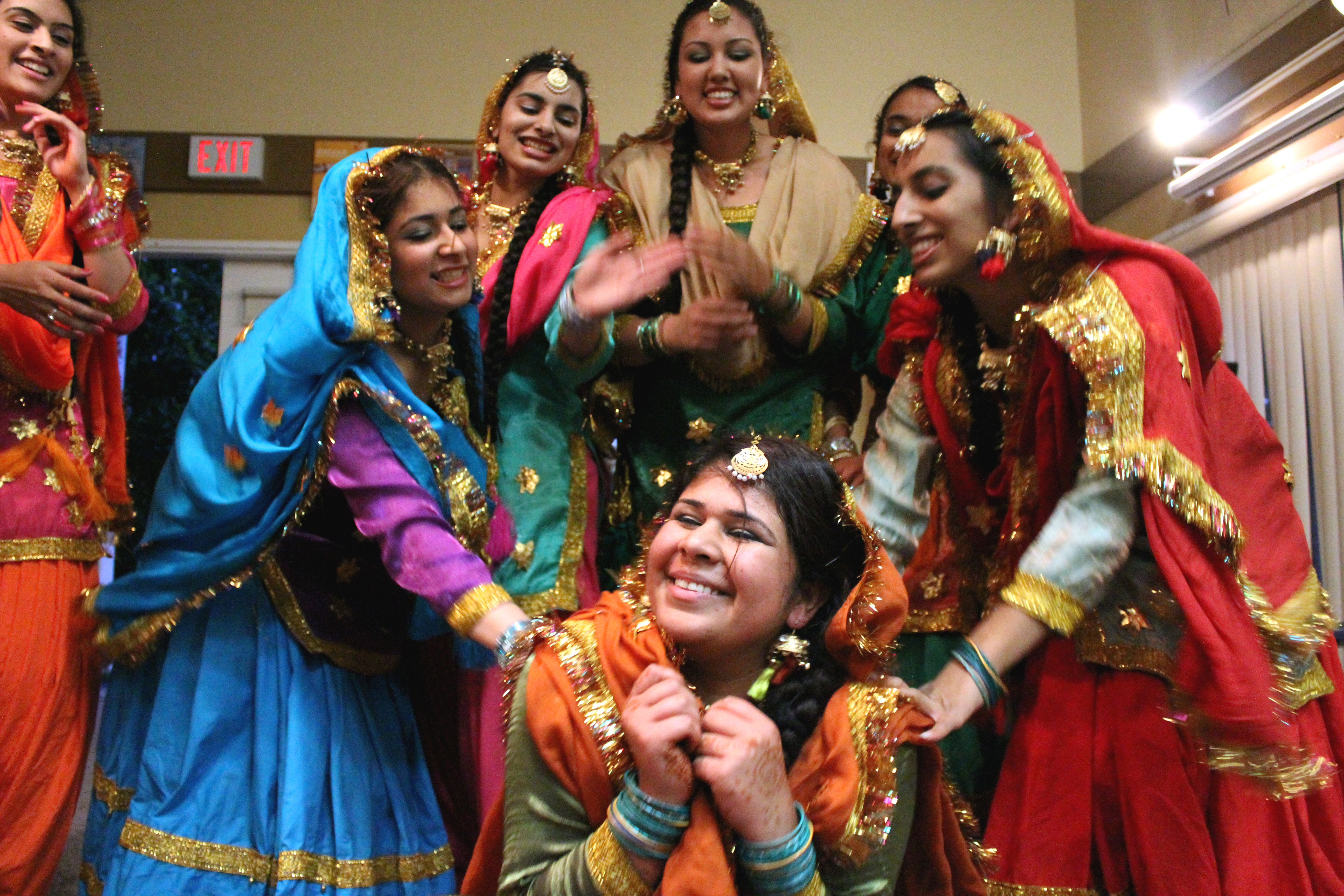 folk song, dance, often seen during monsoon festival in north and west India